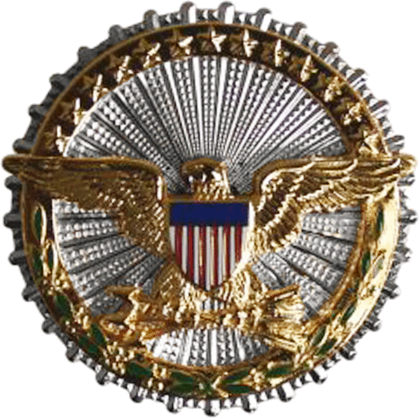 The Office of the Secretary of Defense Identification Badge.